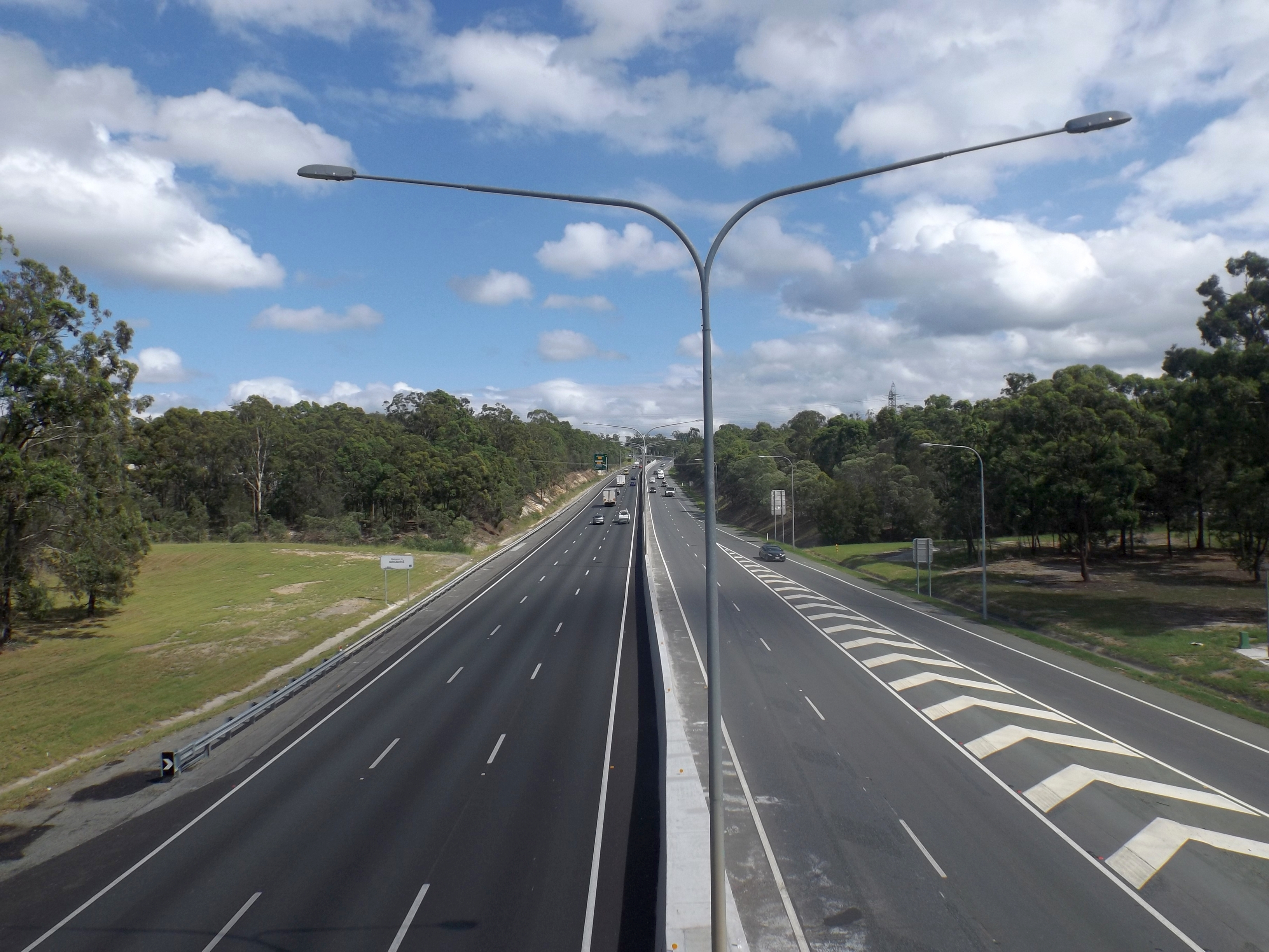 Photo of Logan Motorway looking west from Wembly Road crossing at